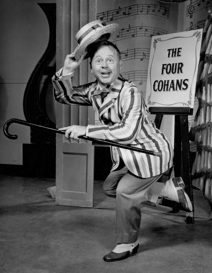 Photo of Mickey Rooney from a 1957 television special tribute to George M. Cohan, Mr. Broadway. Rooney played Cohan in the television special.